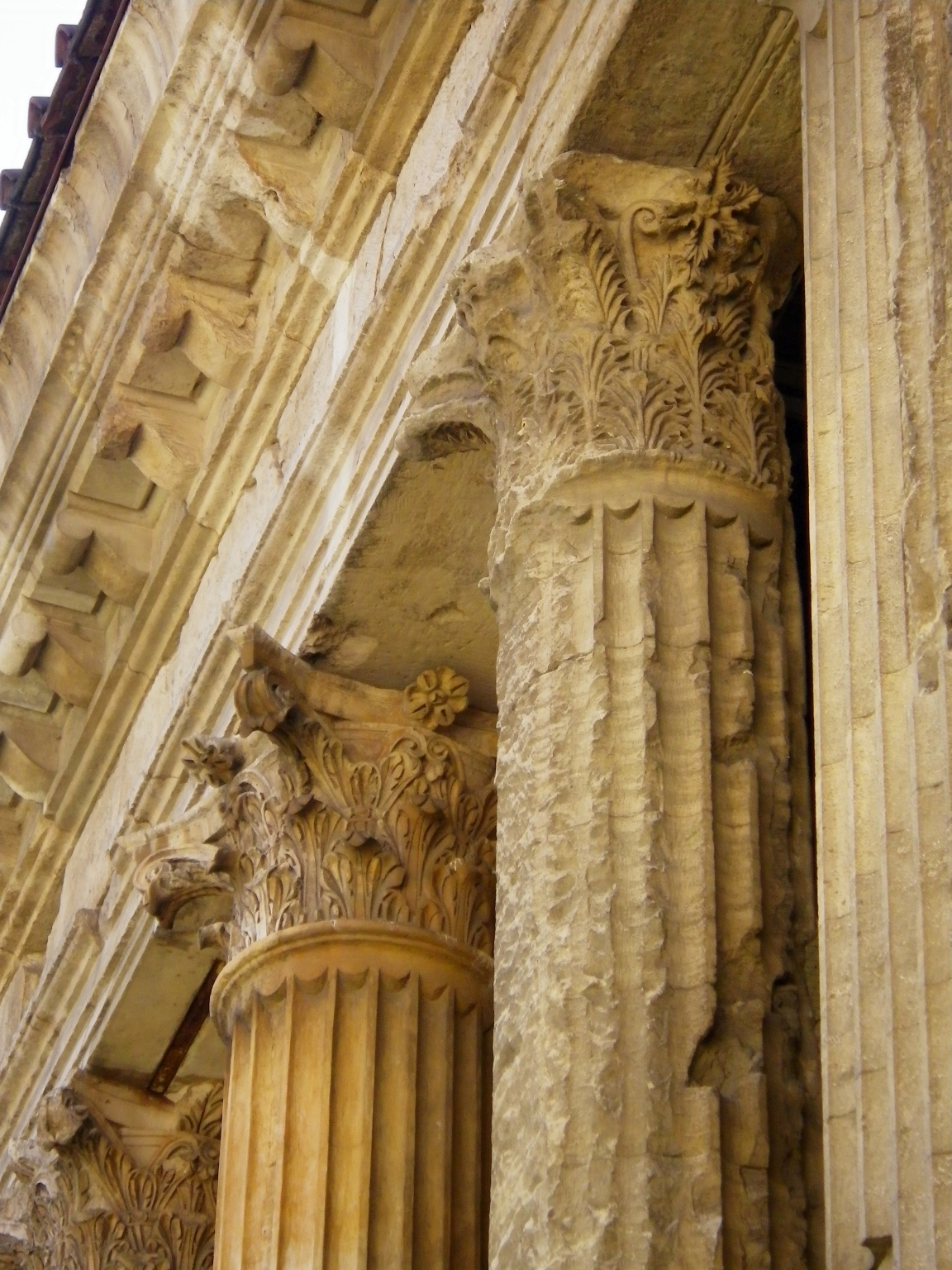 Ornamented columns of Temple of Augustus and Livia in Vienne (Isere, France)